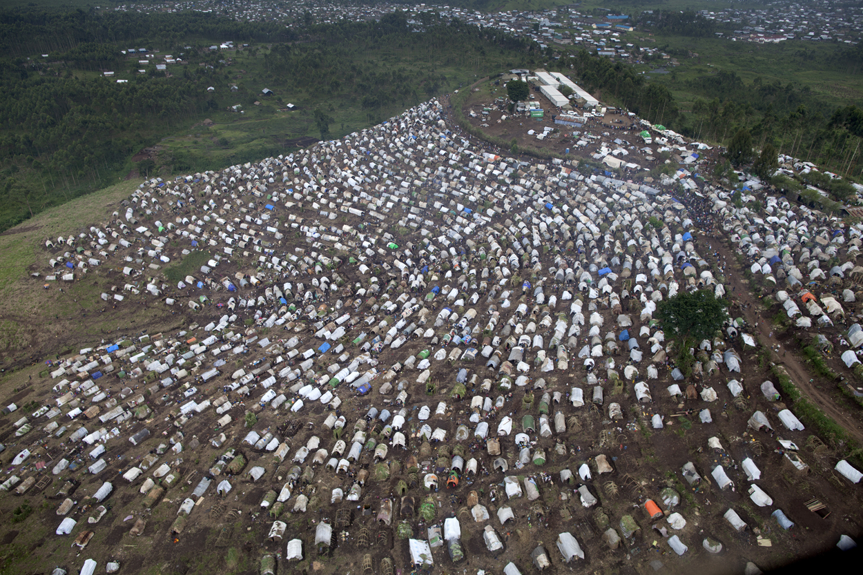 IDP camp appeared around MONUSCO base in Kitshanga after heavy fighting broke between APCLS and FARDC, it is estimated that 5000 peoples where displaced and at least 90 where killed, the 7th of March 2013. © MONUSCO/Sylvain Liechti